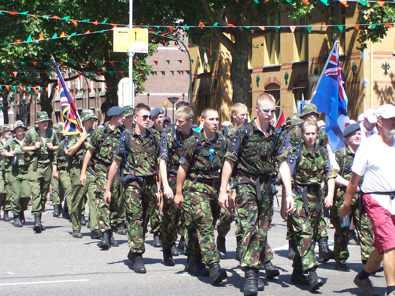 publish my name below the picture: Maurits Vink